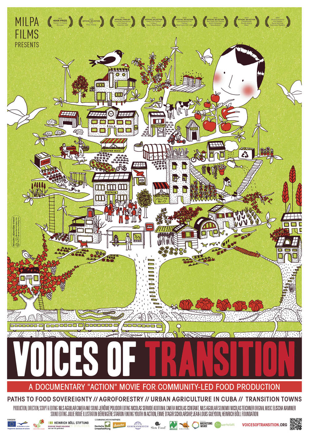 Theatrical poster "Voices of Transition" by Nils Aguilar: Illustration by Bérengère Staron